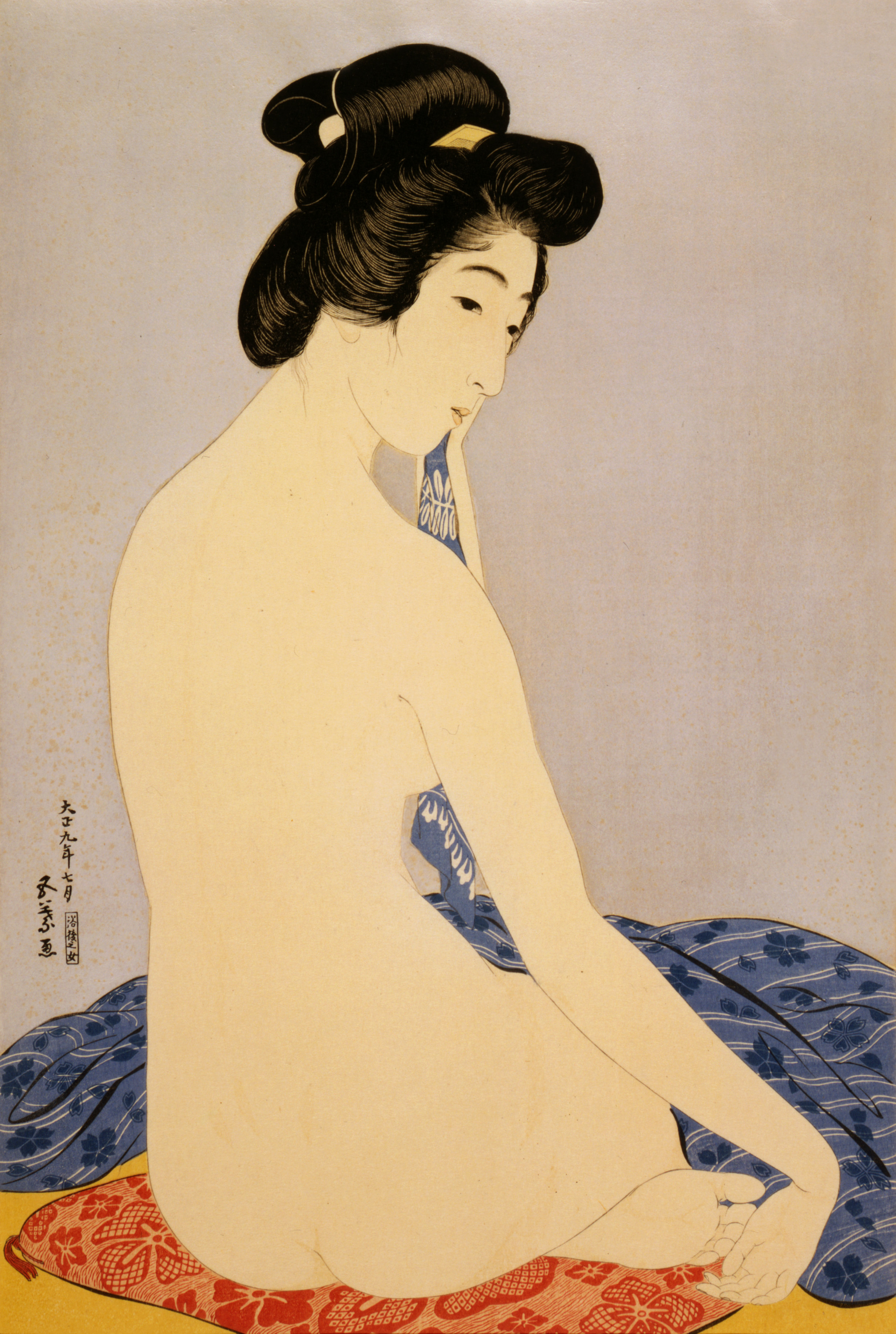 Woman after bath (the model Tomi after bath)